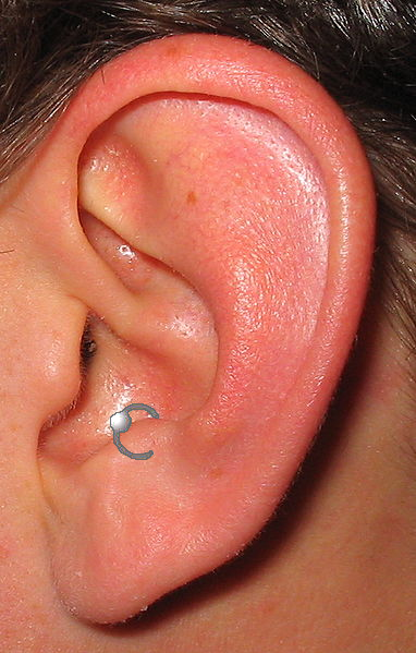 A left human ear with a antitragus piercing drawn in.